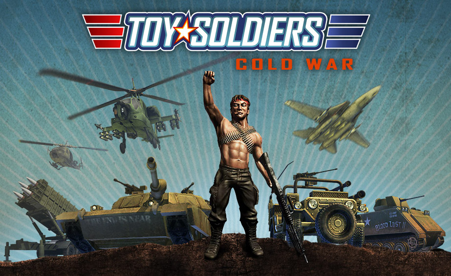 Main brand ID for Toy Soldiers: Cold War (video game)